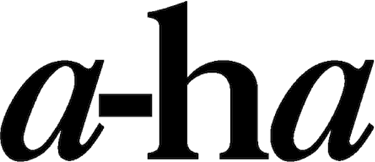 a-ha's classic logo from "Hunting High and Low".